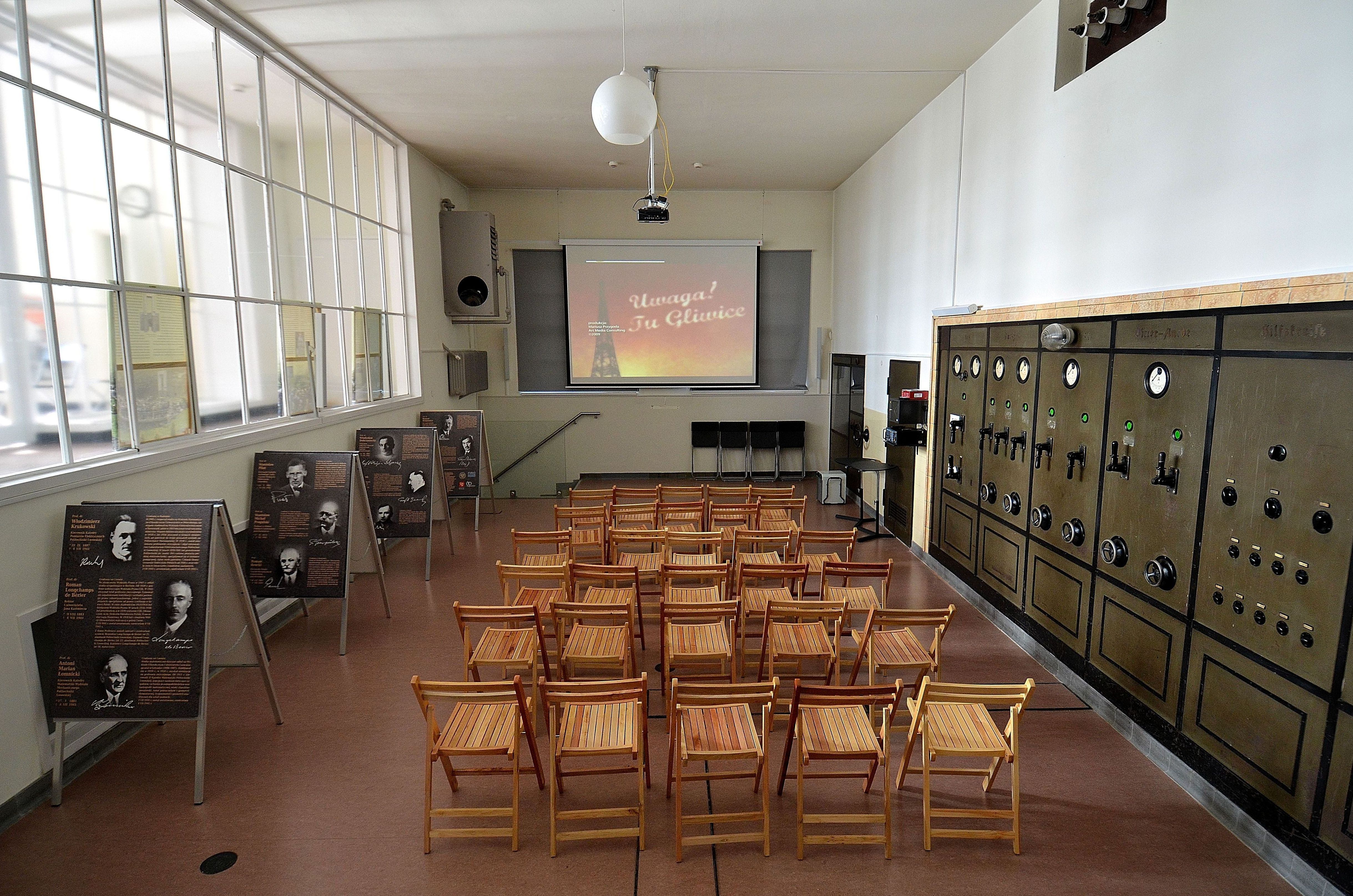 The rectifier room (lower gorund floor) in the Gliwice radio station (listed in the Register of Historic Monuments on 7.02.1964, reference no. A/694/64)